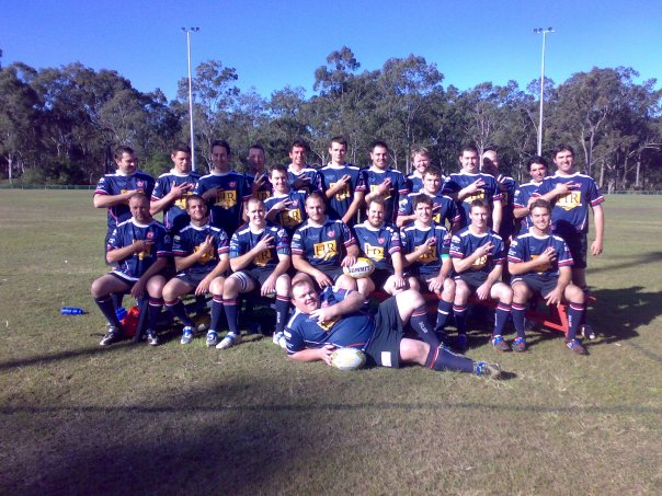 East Maitland Eagles Rugby Football Club team photo 2009